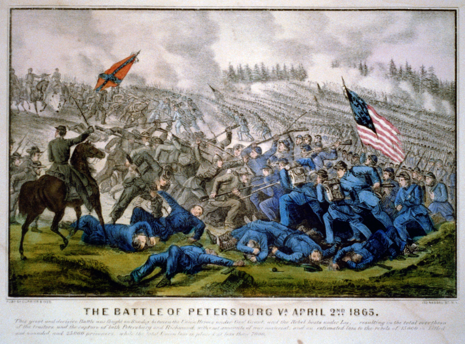 The battle of Petersburg Va. April 2nd 1865